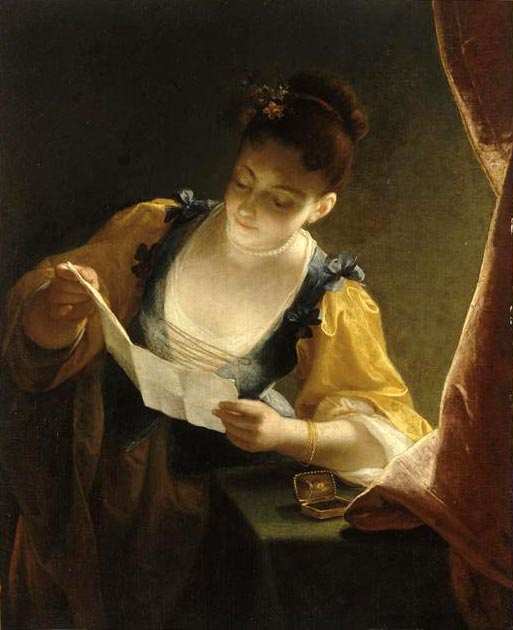 Jean Raoux: "Young Woman Reading a Letter"